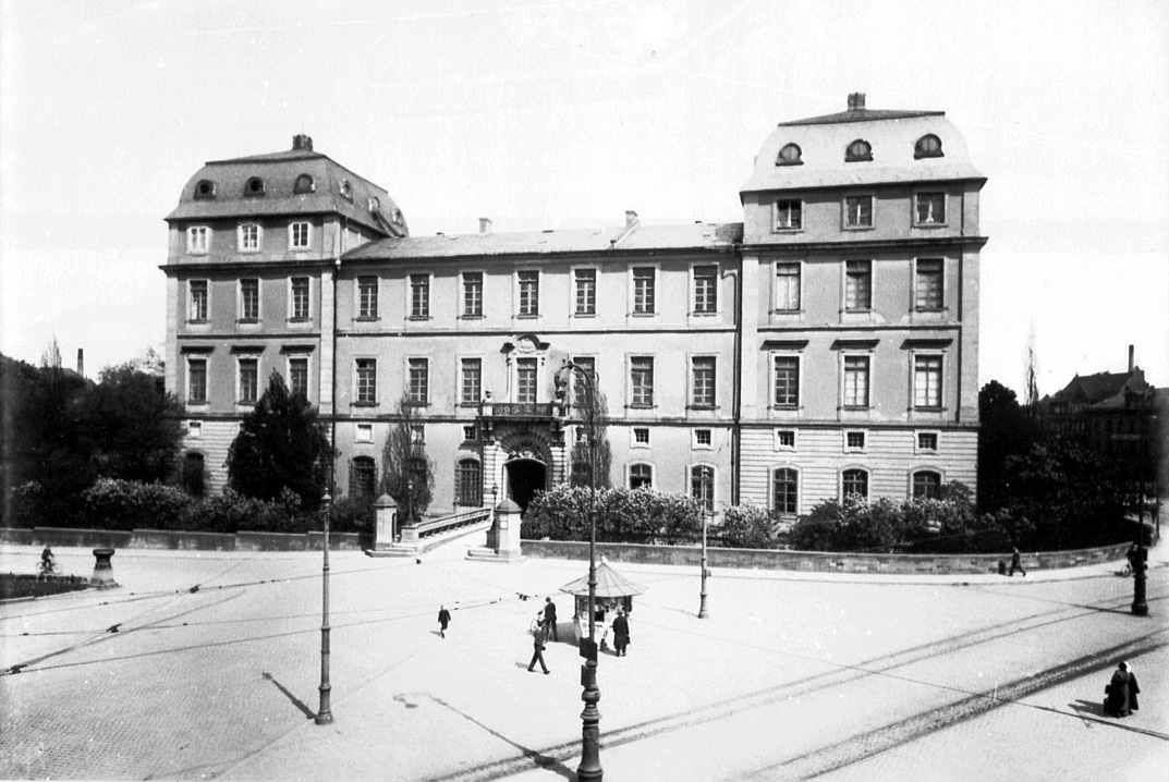 The castle of Darmstadt (Hessen, Germany) seen from West, ca. 1900